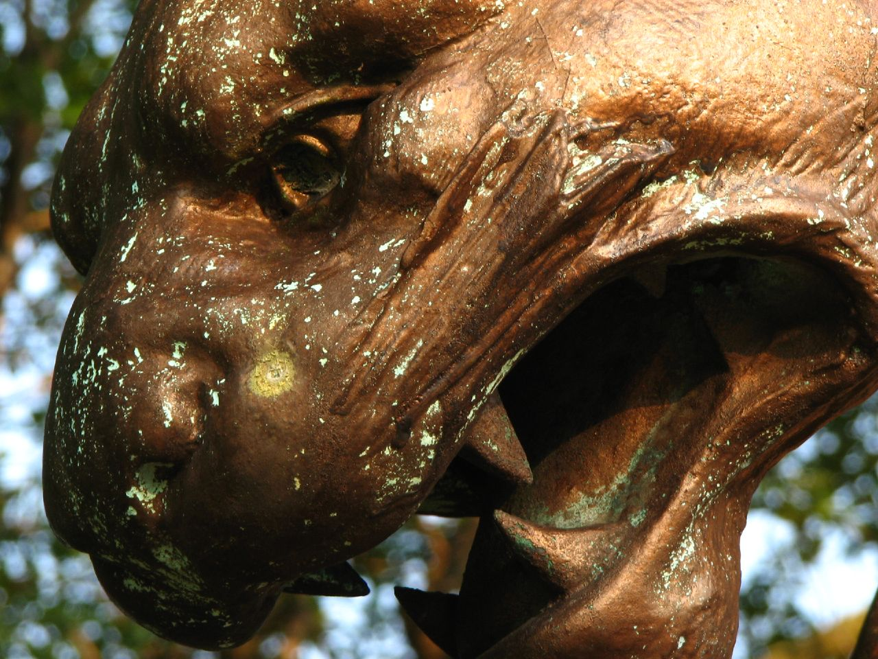 Panther by Giuseppe Moretti (d. 1935).